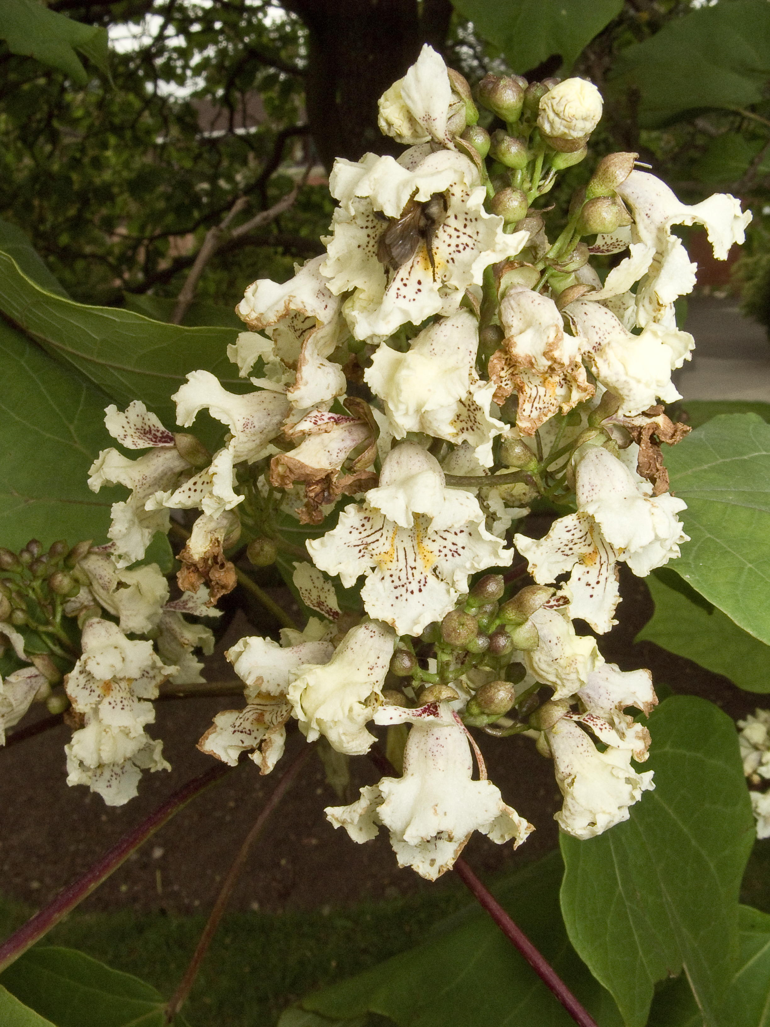 Flowers of Catalpa ovata, growing at Birmingham Botanical Gardens & Glasshouses